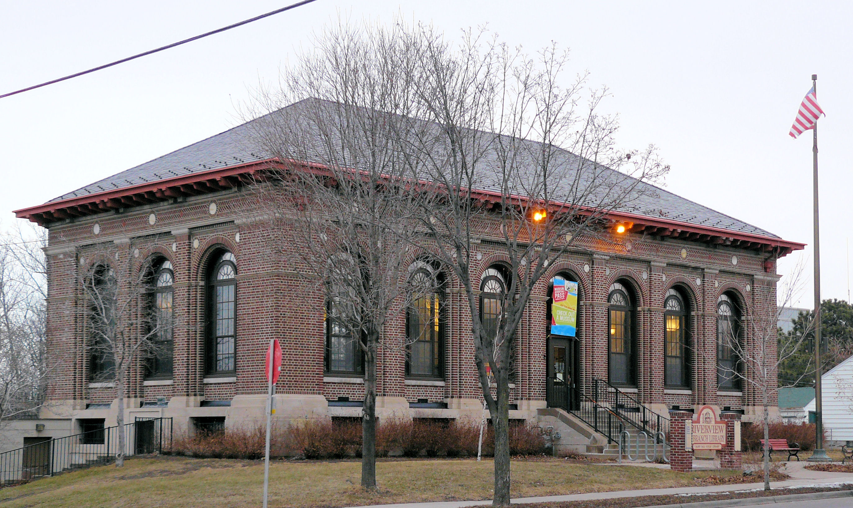 Riverview Branch Library, 1 George Street East, Saint Paul